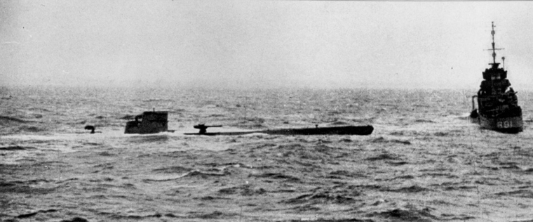 U-110 was captured by HM Ships Bulldog, Broadway and Arbretia